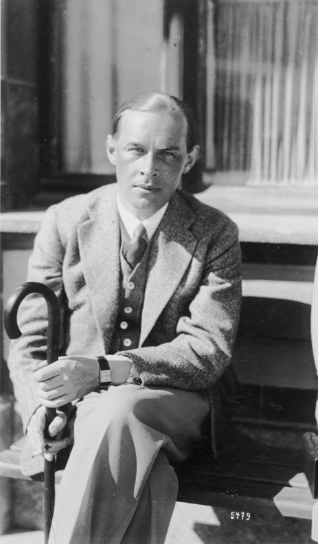 Erich Maria Remarque, born 1898 in Osnabrück.